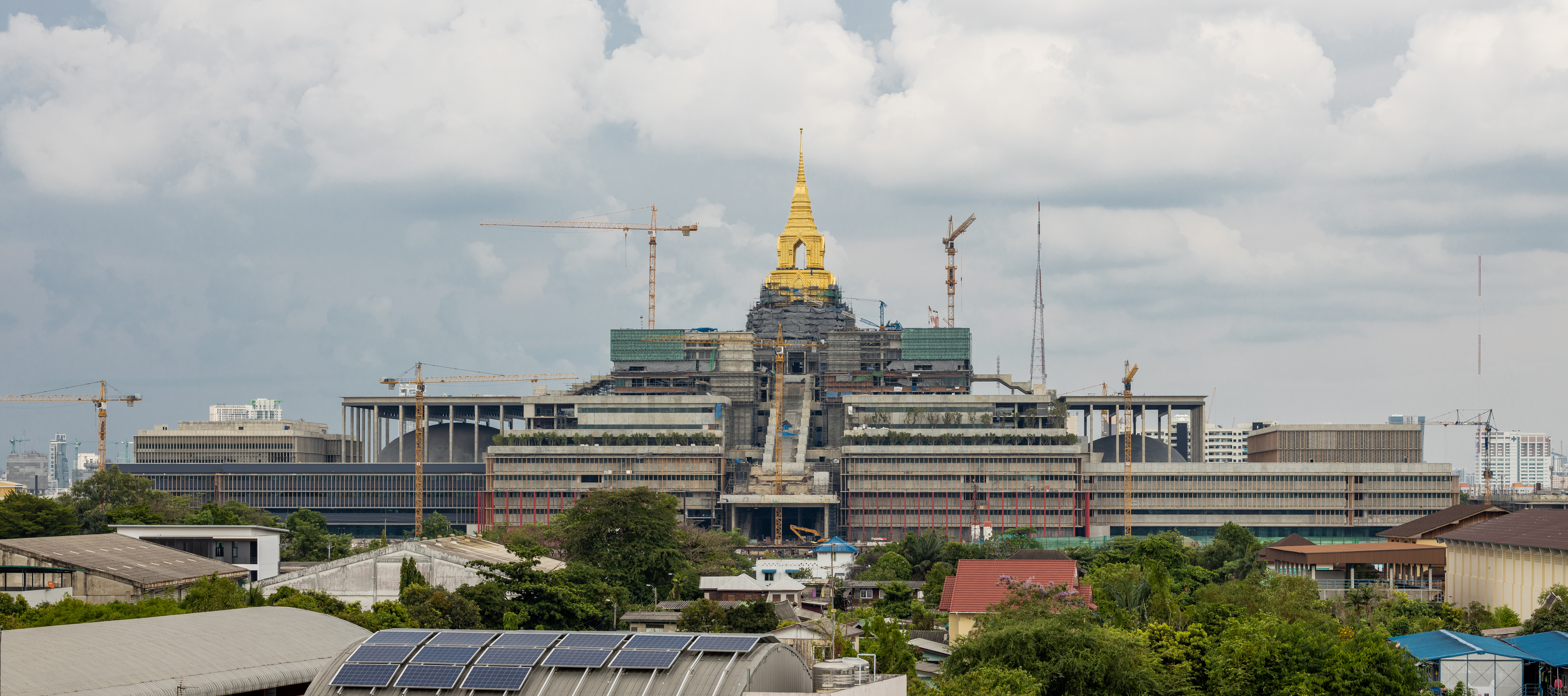 Viewed from Bang O MRT station, the panoramic view of under construction of new Thailand's parliament called Sappaya-Sapasathan is located in Bangkok, Thailand.